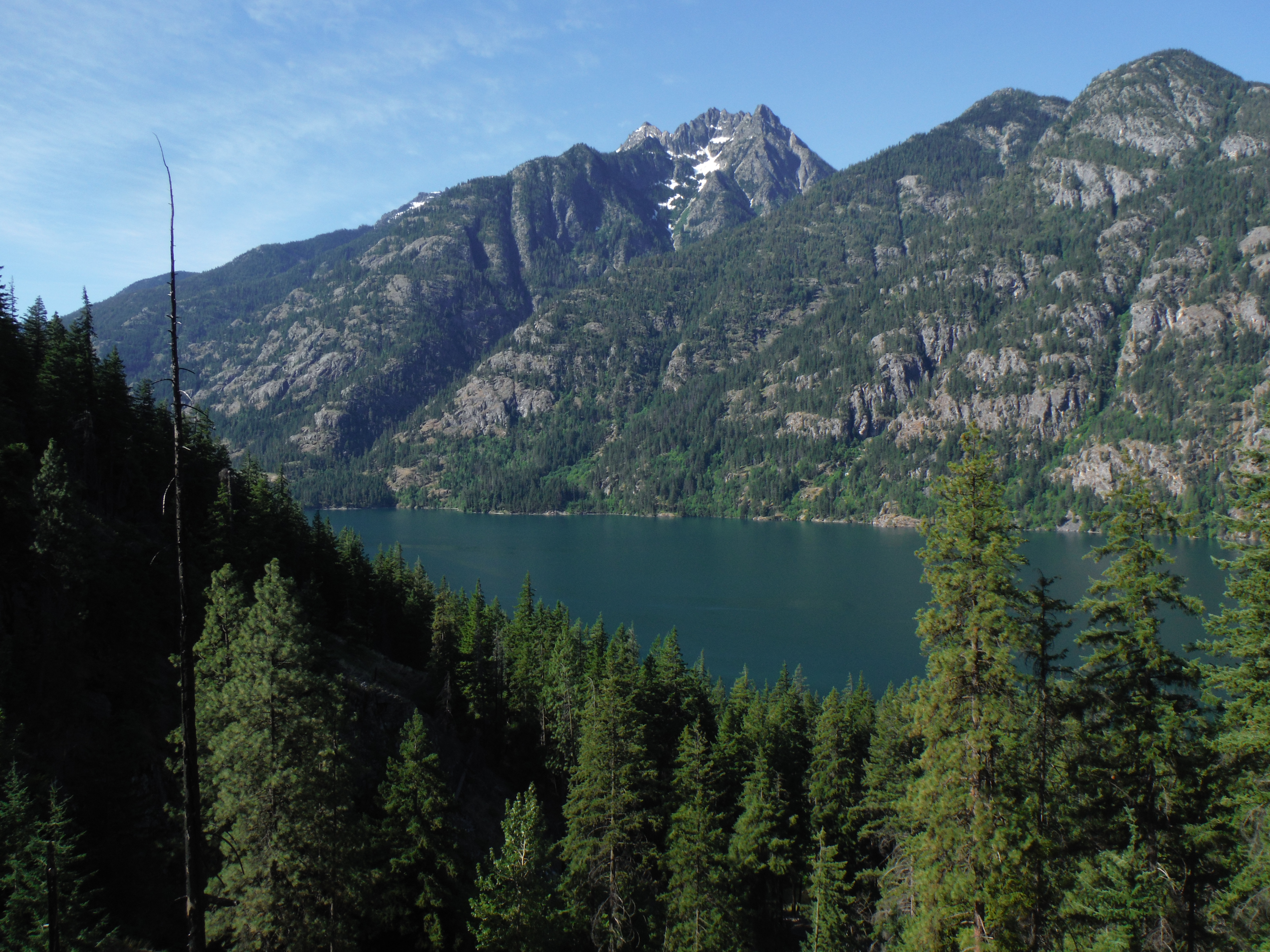 Castle Rock seen from Purple Creek Trail at Lake Chelan